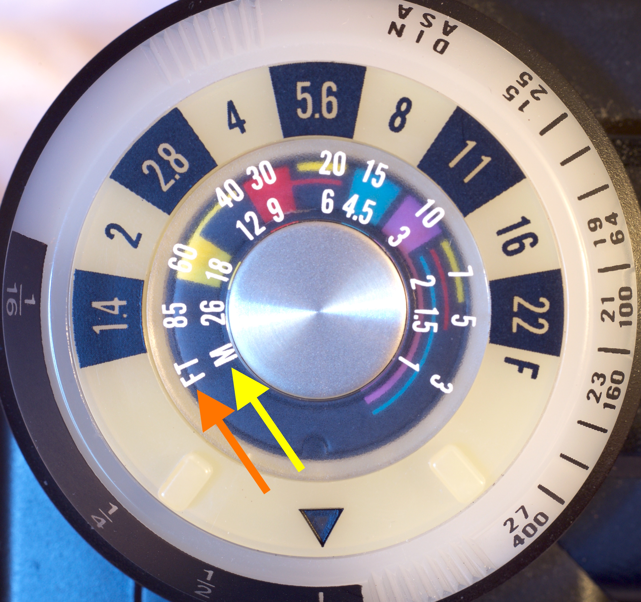 An exposure calculation dial on an original Vivitar 285 speedlight. Each combination of f-stop and distance equals the same guide number.